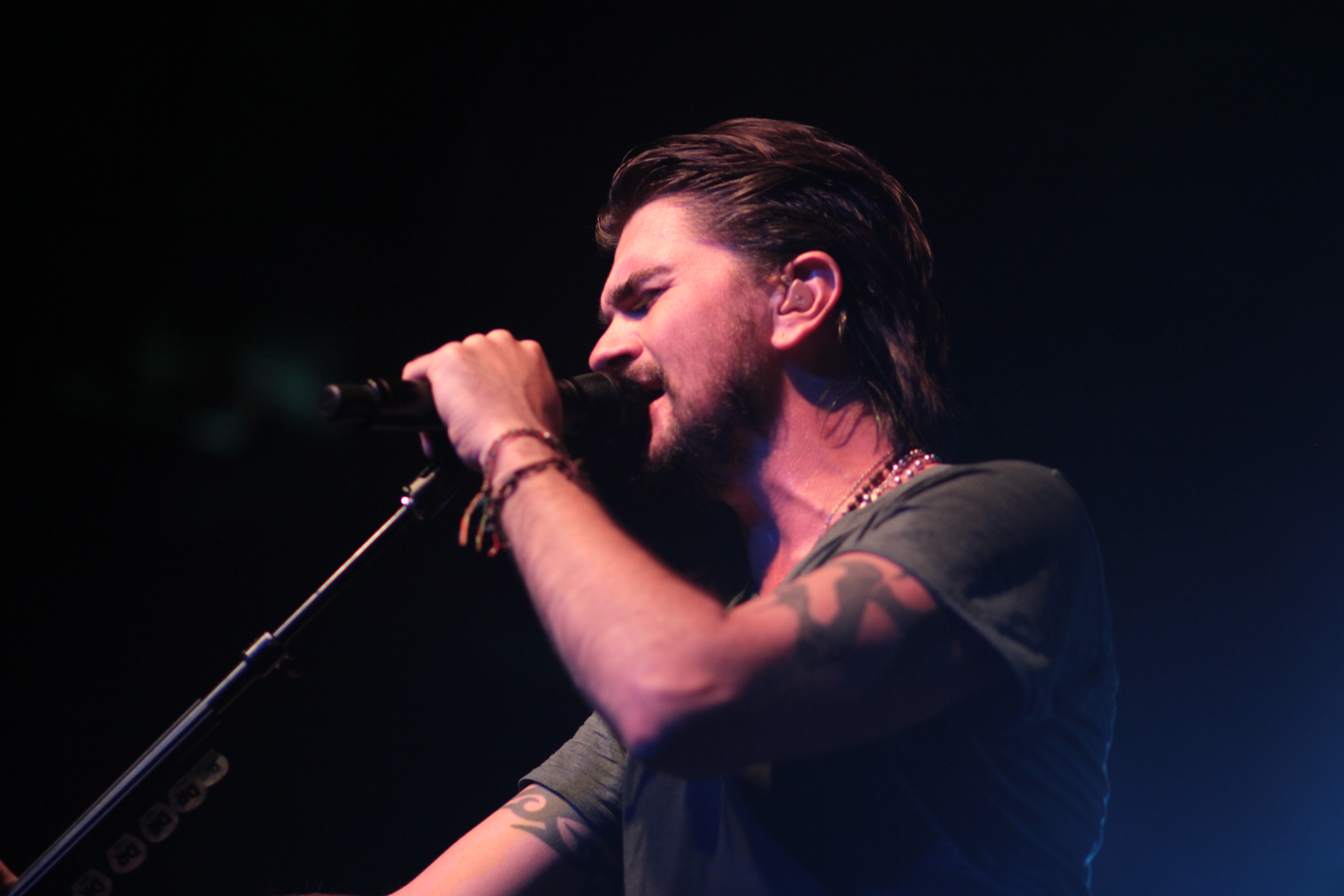 JUANES Unplugged Tour